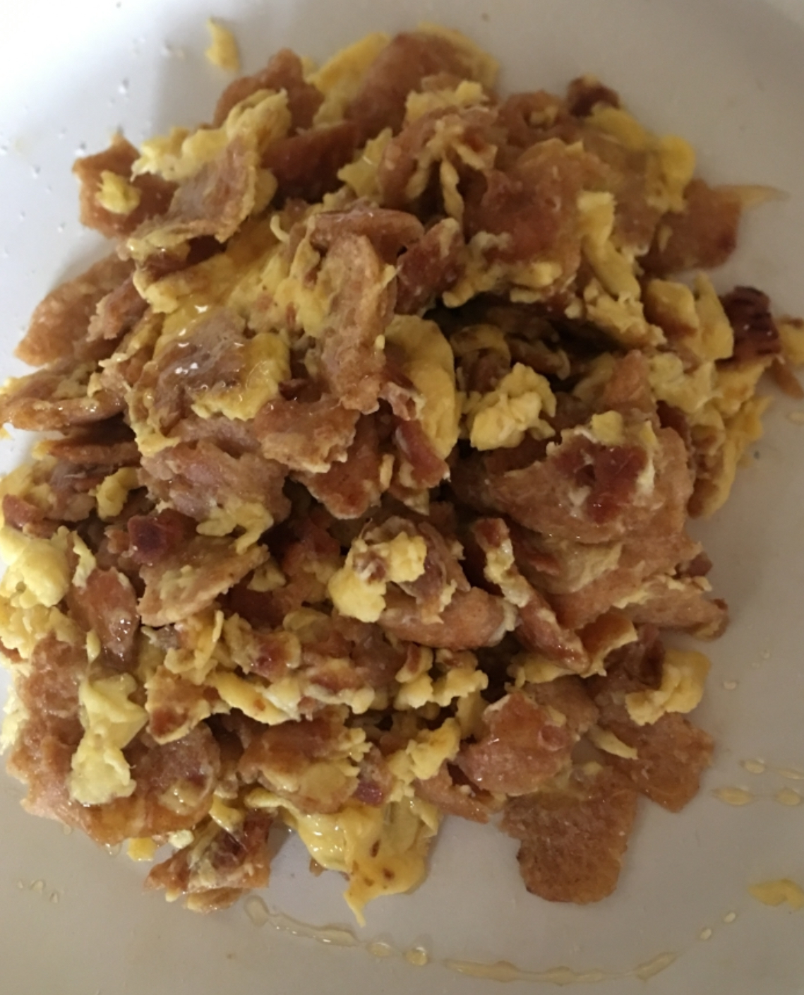 A photo of the Yemenite-Jewish Israeli dish Fatoot Samneh.